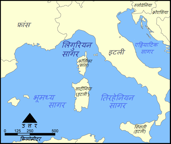 A map showing the location of the Ligurian Sea. Hindi.